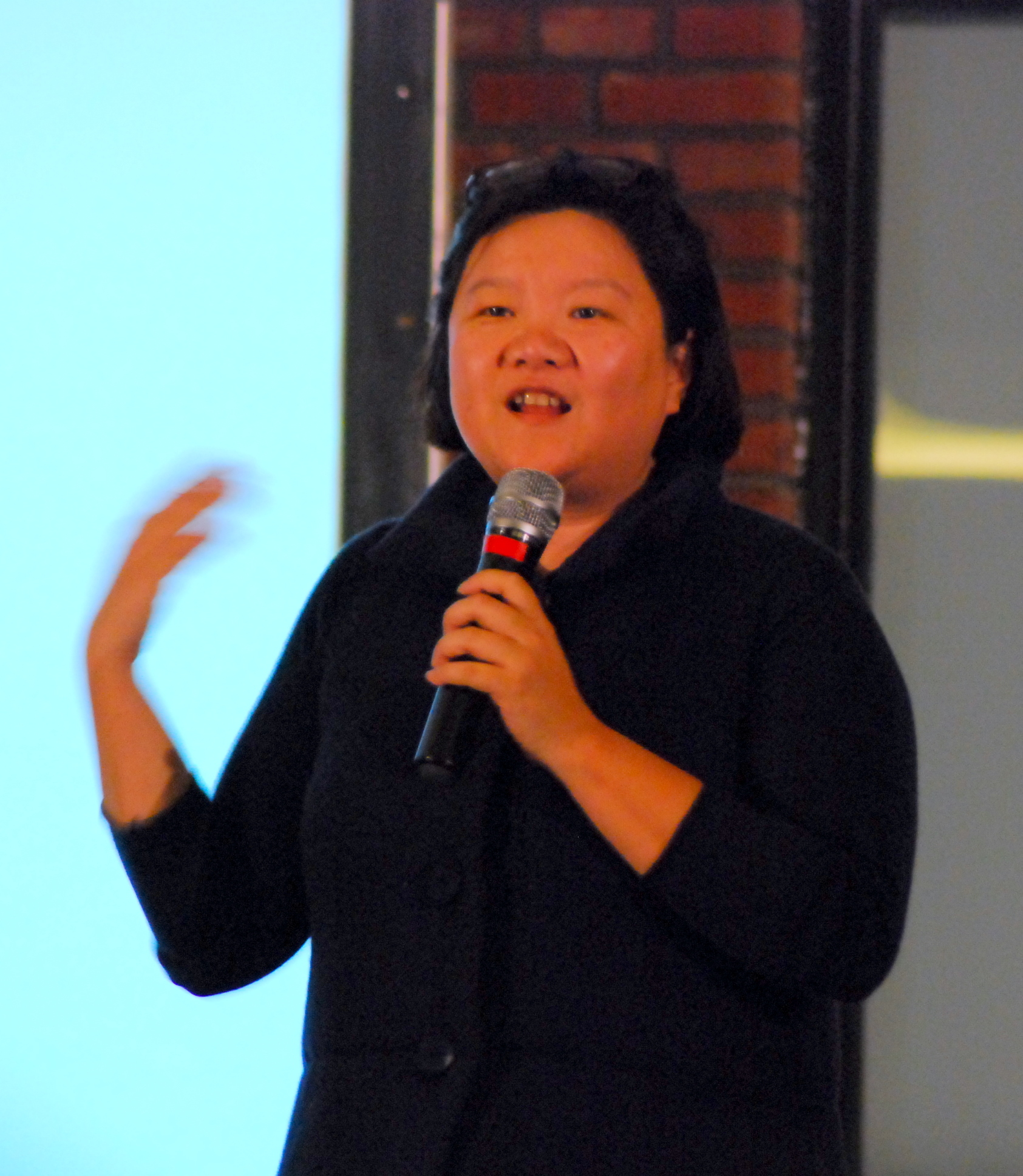 Hung Huang at TEDxBeijing